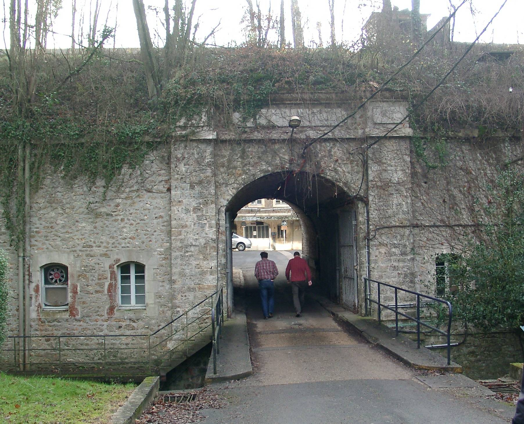 Fortifications in the Forêt de Verrières (Verrières forest) built in 1875 — after the 1870-1871 war lost against Germany.